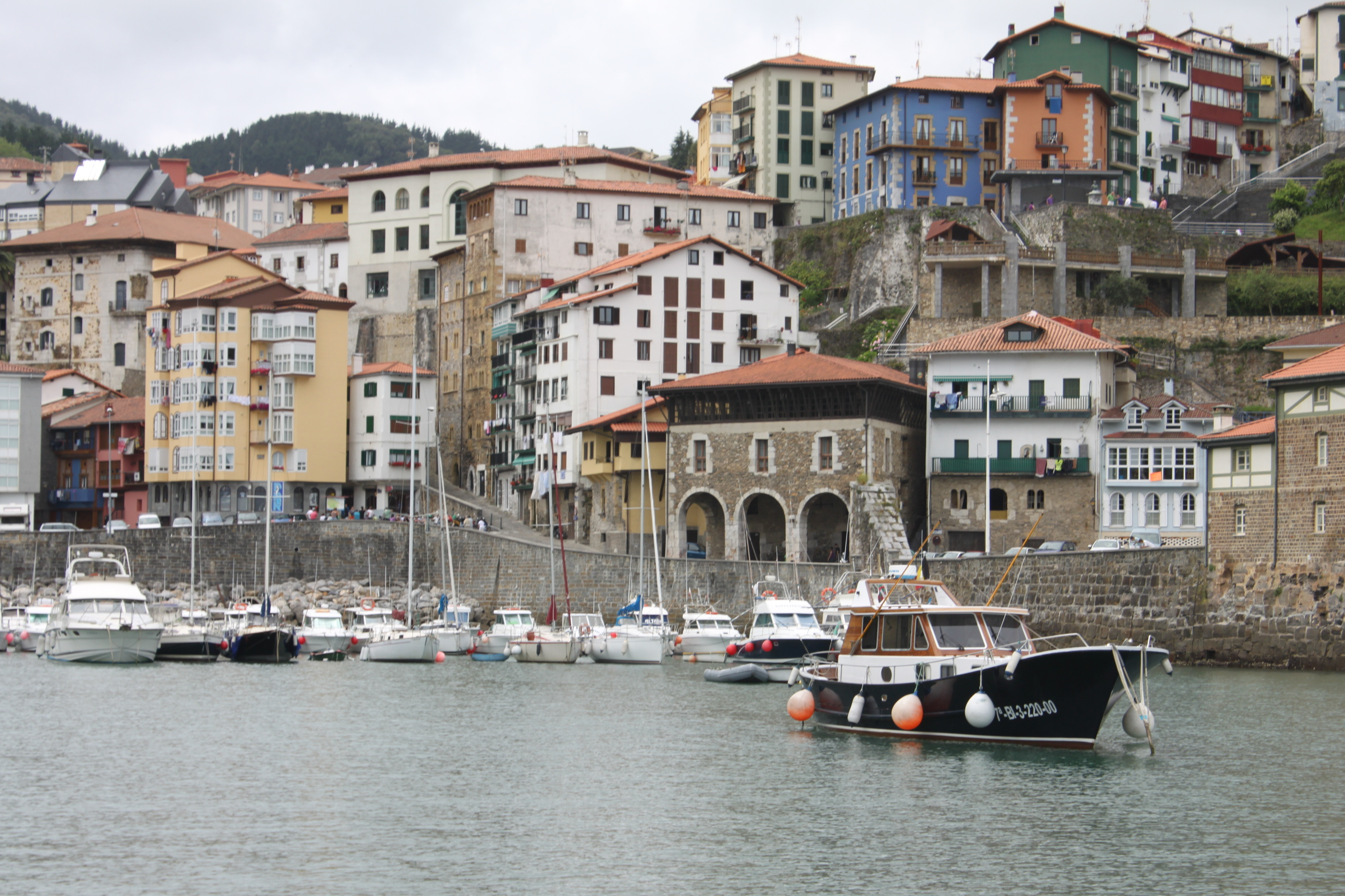 Houses in Mutriku, as seen from harbour (Mutriku, Guipuscoa, Basque Country)